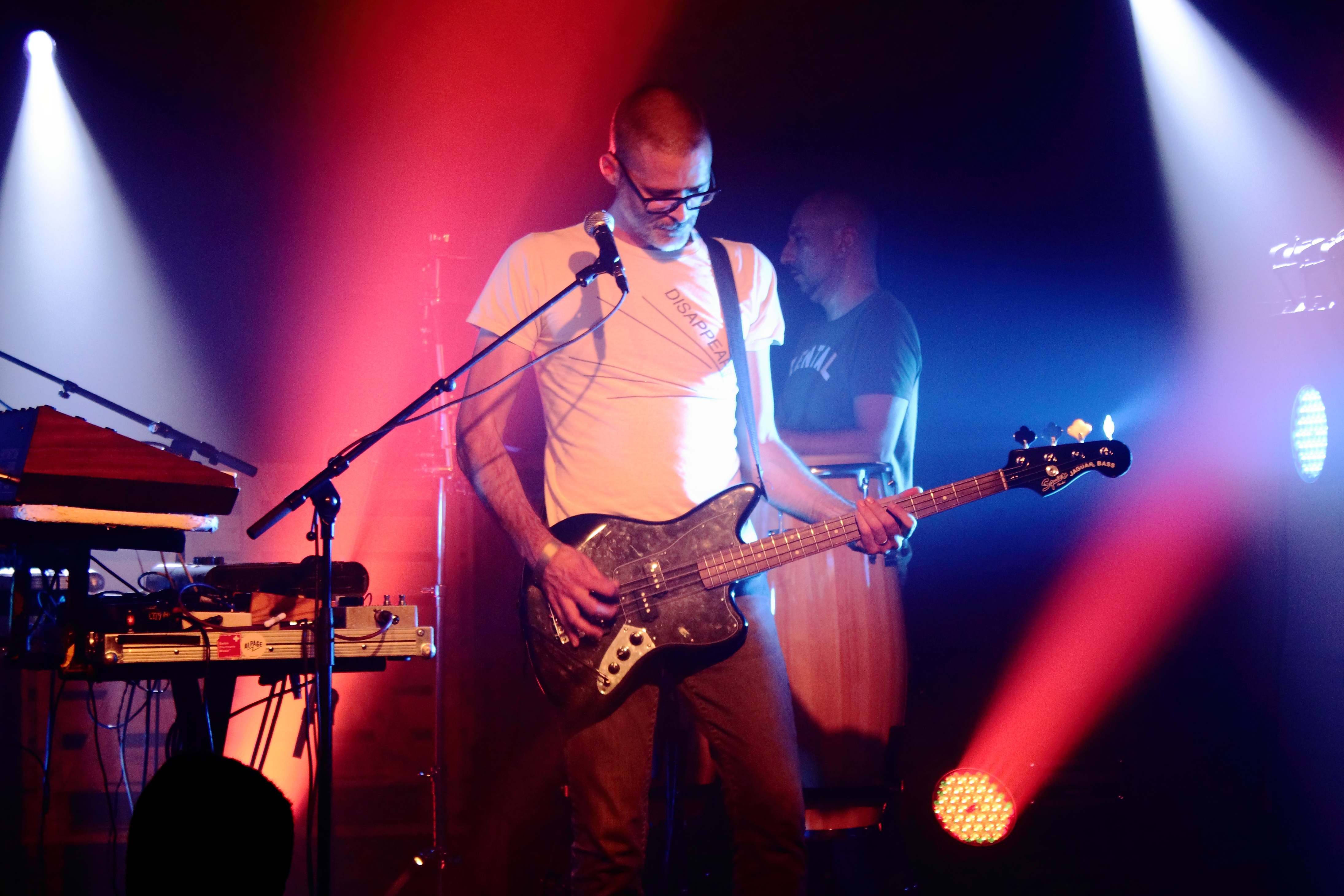 Rubin Steiner performing in 2014 Concert du Rubin Steiner Live Band pour le festival Le Son du Vignoble #3 - Marigny Brizay, juin 2014. Flickr Tags: Festival Musique Music Scène Stage Live Concert Show Electro-Rock Le Son du Vignoble Rubin Steiner Rubin Steiner Live Band Marigny Brizay La Rotisserie Disco Punk Electro Electronic Music. from Flickr album "Le Confort Moderne" by Xi WEG from Poitiers, France